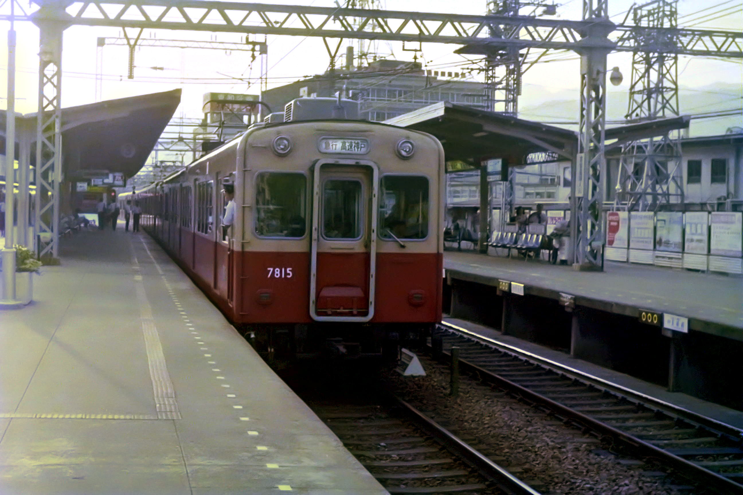 A Hanshin 7800 series EMU at Hanshin Nishinomiya Station in 1984